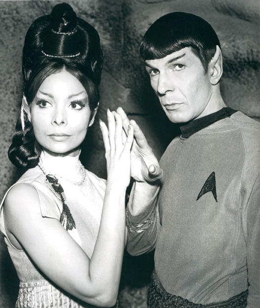 A Photo of Arlene Martel in the role of T'Pring and Leonard Nimoy as Spock published as a publicity photo by NBC-Television.